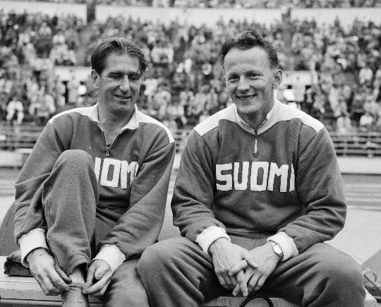 Photograph of the Finnish jawelin throwers Eino Leppänen (1916–1974) and Toivo Hyytiäinen (1925–1978) at Helsinki Summer Olympics.